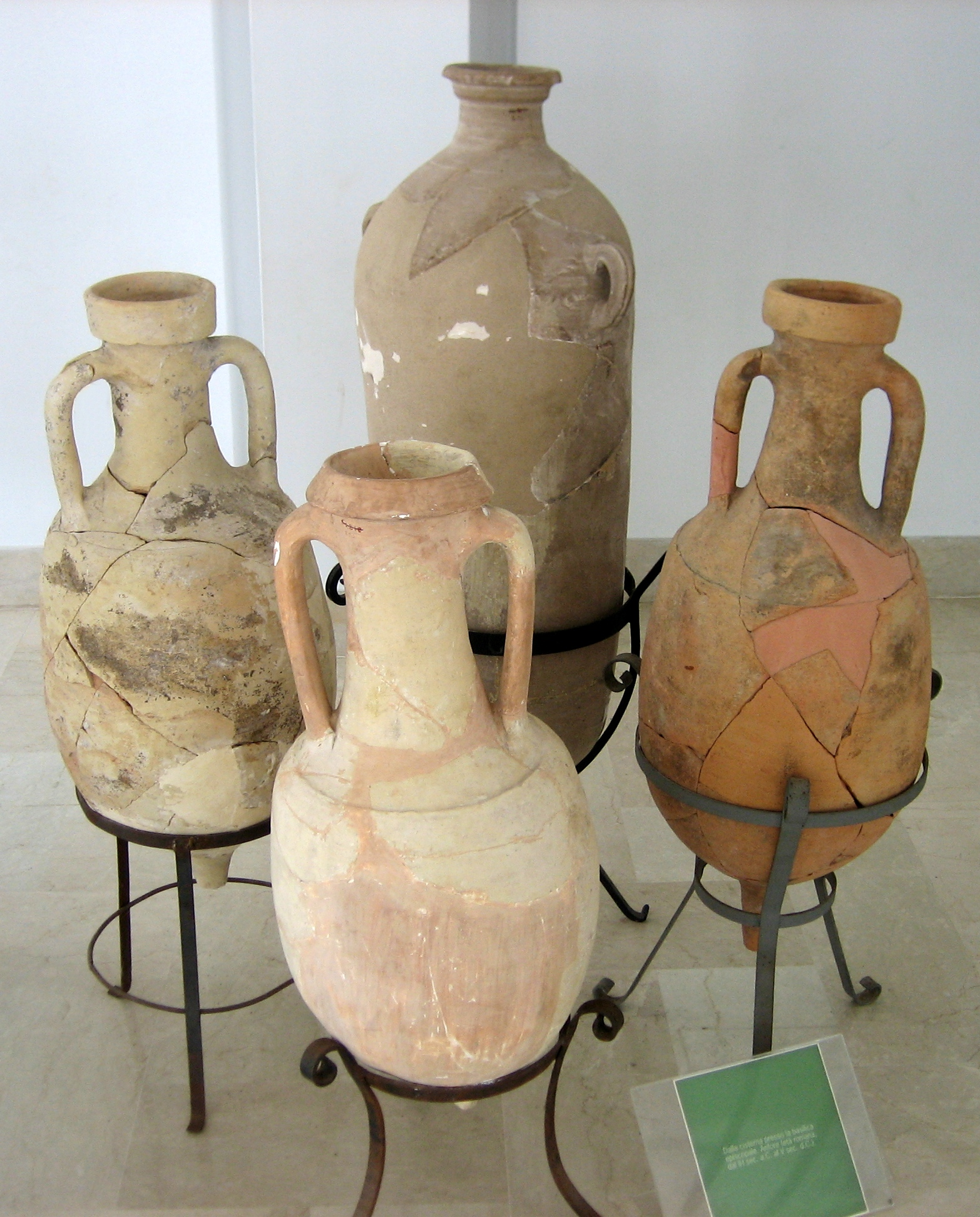 Ancient Roman amphoras in the museum at the Parco Archeologico di Egnazia in Puglia, Italy